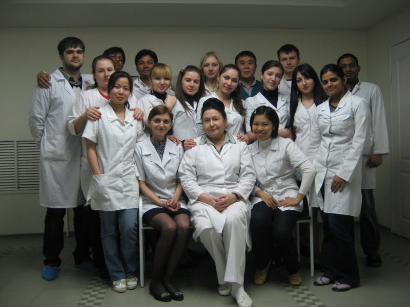 department of pediatrics